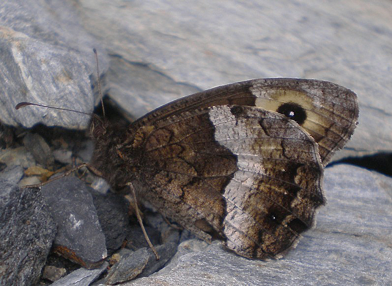 Near Canillo, Andorra.